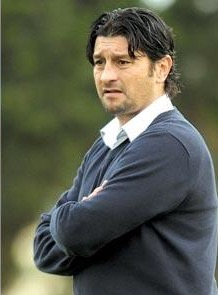 Danilo Doncic during the game